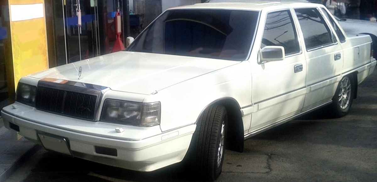 Hyundai Grandeur